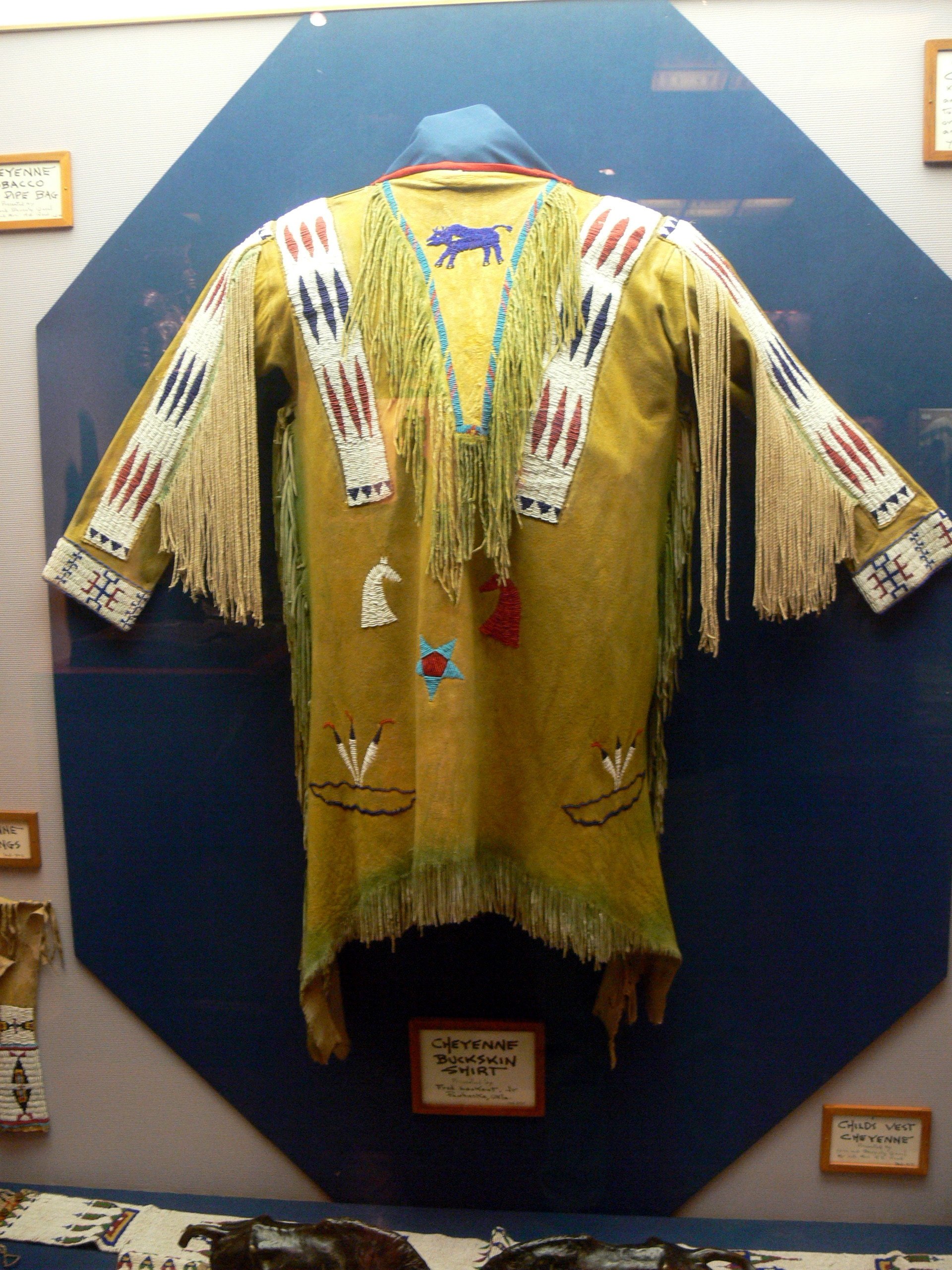 Woolaroc, Oklahoma. Cheyenne buckskin shirt.